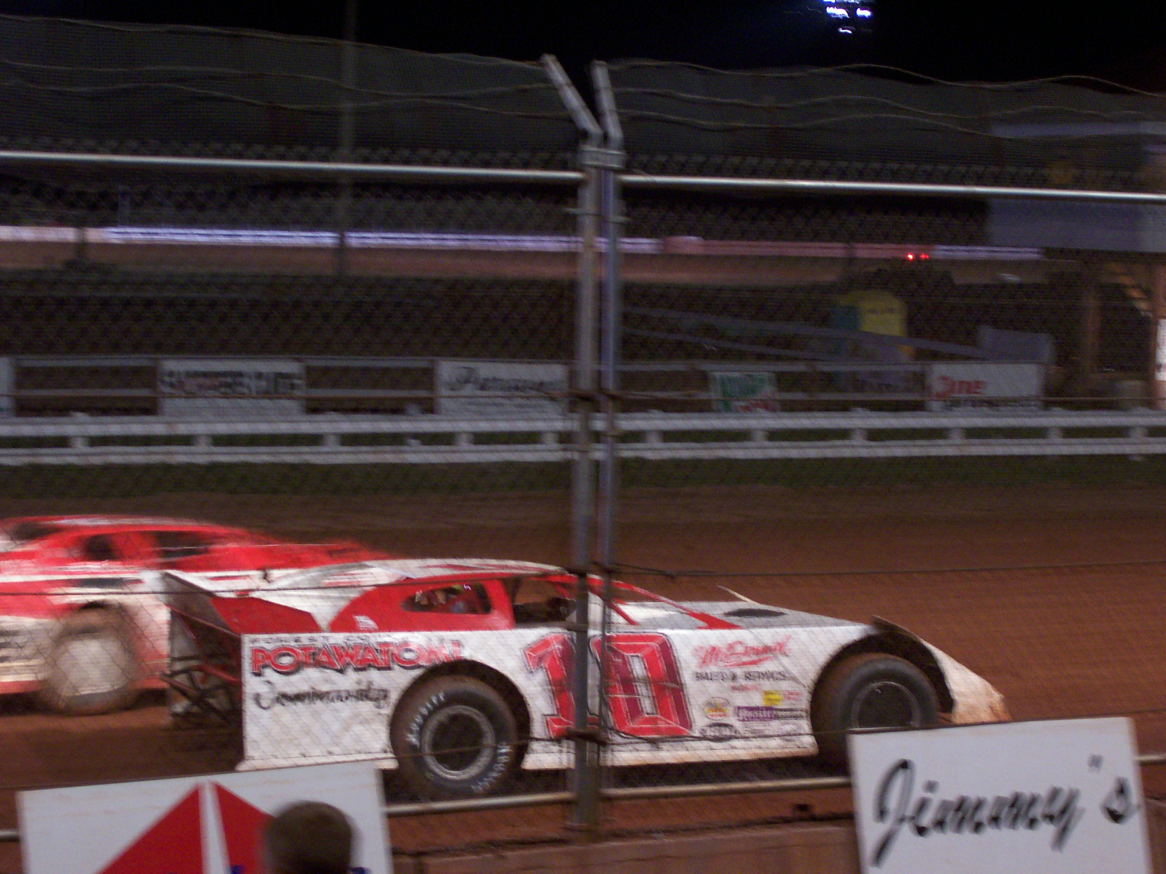 Pete Parker's #10 2006 WISSOTA Late Model car at Langlade County Speedway (Wisconsin). Pete is a 2006 inductee in the National Dirt Late Model Hall of Fame (USA).